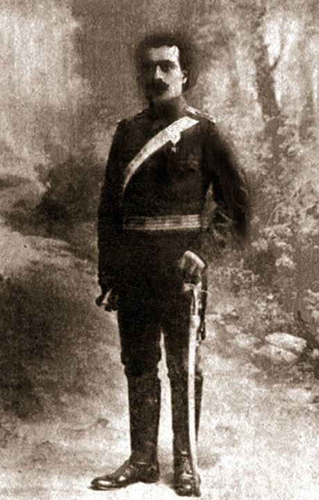 Garegin Nzhdeh as a Bulgarian Army Officer during the Balkan Wars.